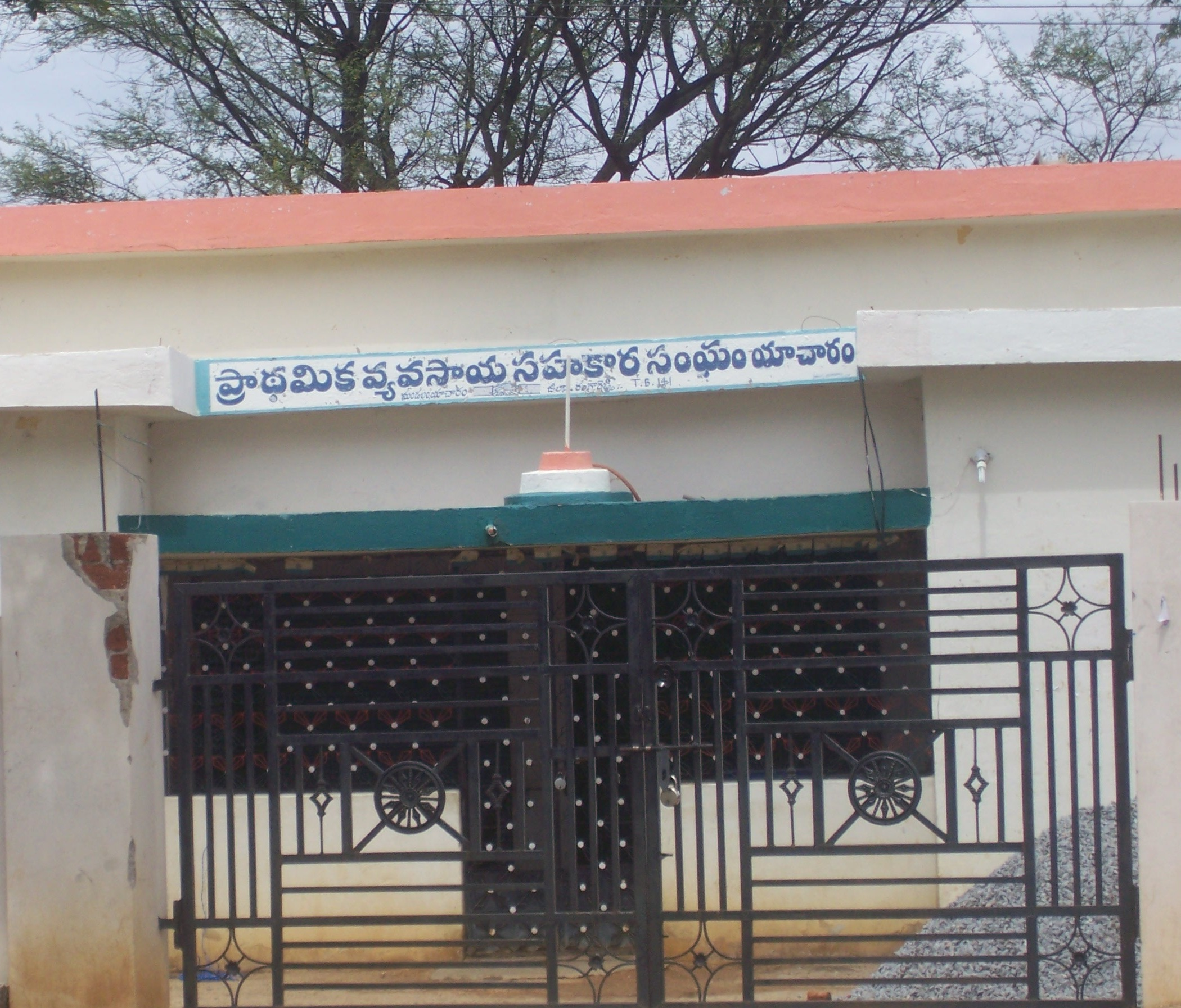 coop. society